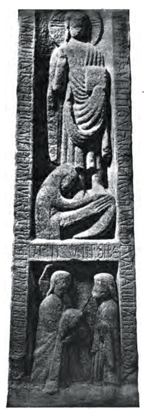 Captioned as "Fig. 6 Ruthwell Cross, South Face, Anointing of Christ's Feet, and Healing of the Blind Man.jpg"